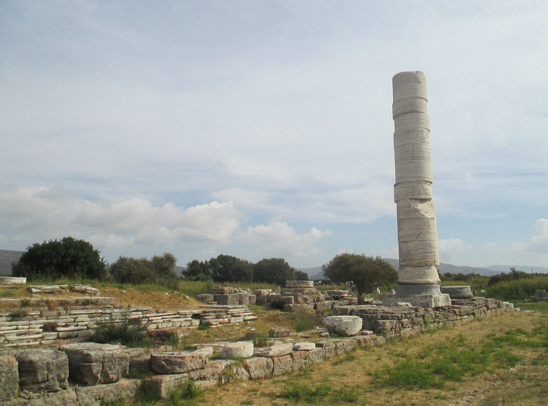 Heraion of Samos. Near Pythagoreion, Samos, Greece.